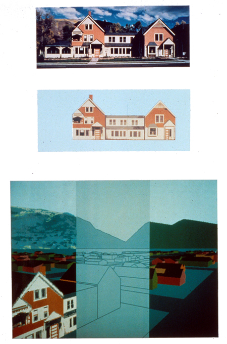 The Quick and Dirty Animation System developed at the Architecture Machine Group in 1979 in conjunction with the Aspen Movie Map project. This figure shows the texture-mapping feature.